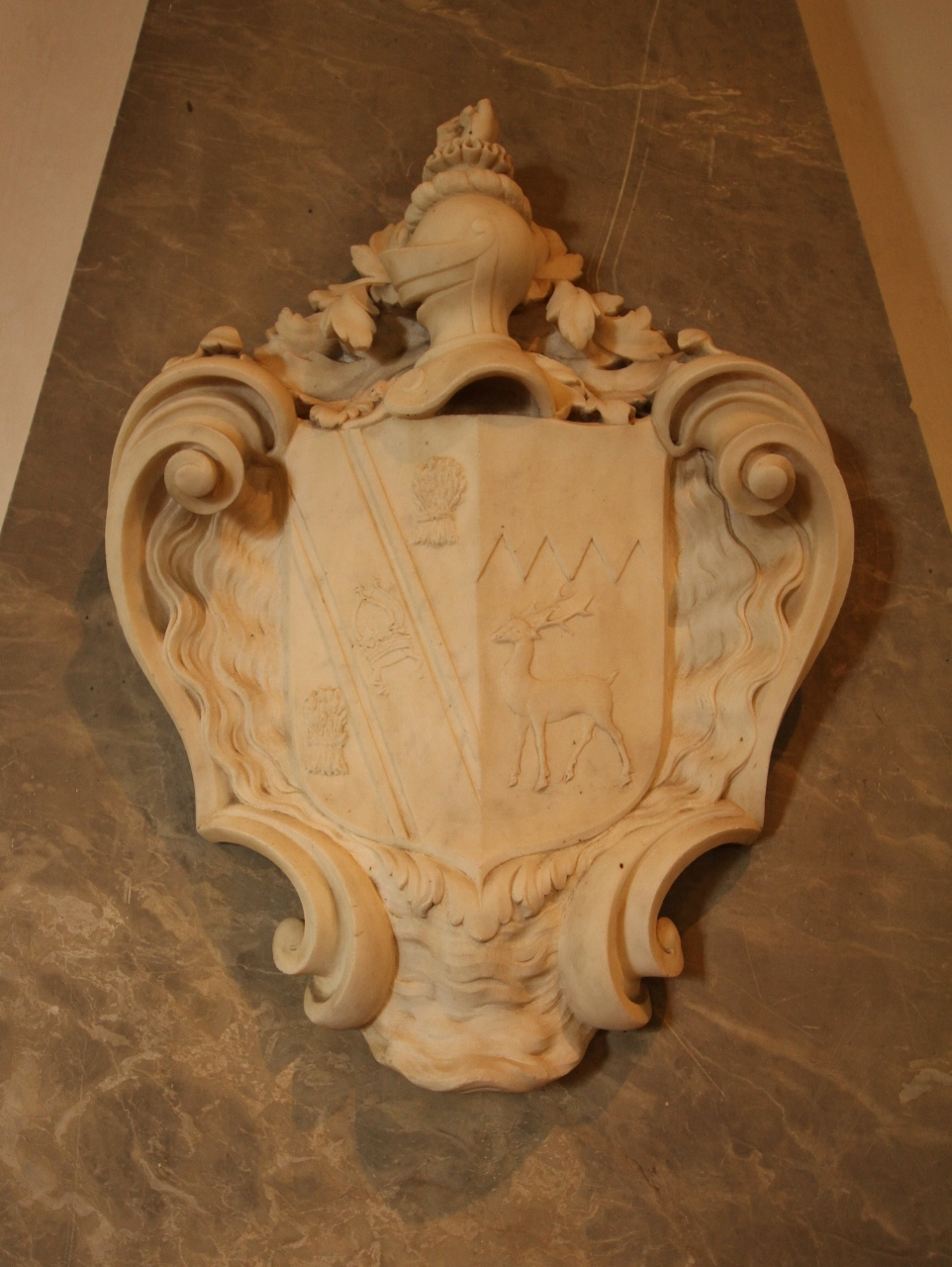 Coat of arms on a monument in the south aisle of St Mary's parish church, Hampton Poyle, Oxfordshire, to Christopher Tilson (1669–1742). He married Mary Humble (died 30 August 1737), a daughter of George Humble. Arms: Or, on a bend plain cotised between two garbs azure a mitre of the field (Tilson) impaling Sable a buck trippant or a chief indented of the second (Humble)